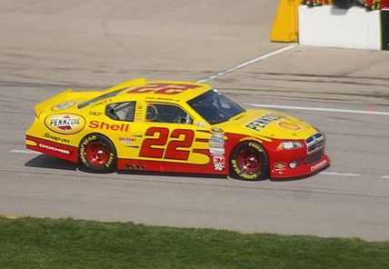 Sam Hornish driving the Dodge No. 22 to pit road in Chicagoland.